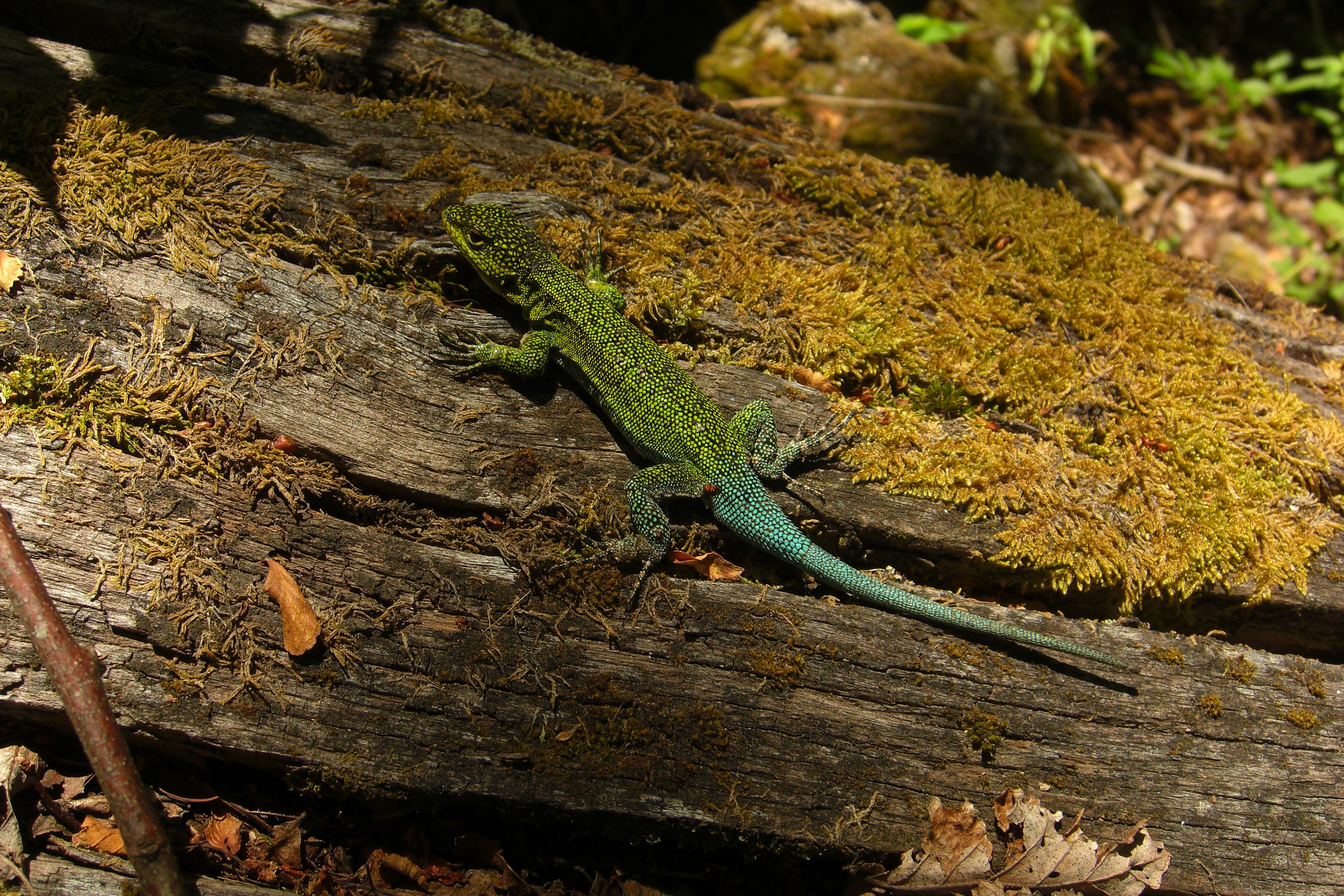 These irridescent little critters are *everywhere*.